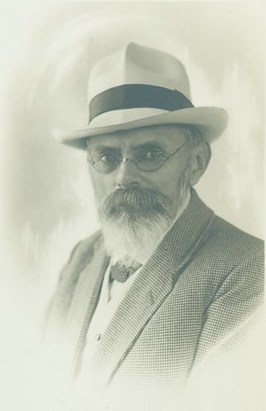 Anton Wenzel Šourek